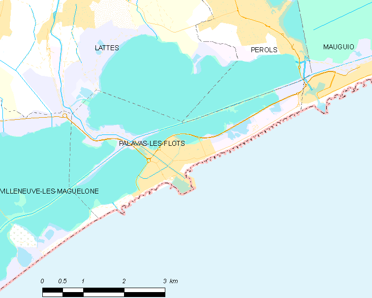 Map commune FR insee code 34192.png - Palavas-les-Flots